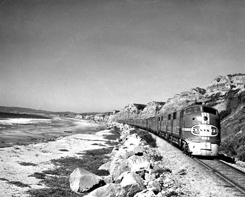 ATSF's San Diegan passes through San Clemente, CA. From "Railfanning the Santa Fe in Southern California" — copyright Surf Line Historical Society (2003), free to distribute and/or use for any purpose.